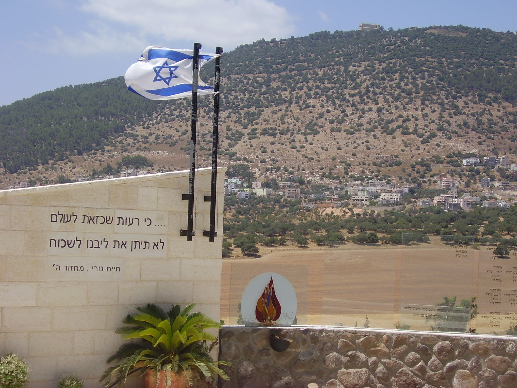 war memorial in kaduri school